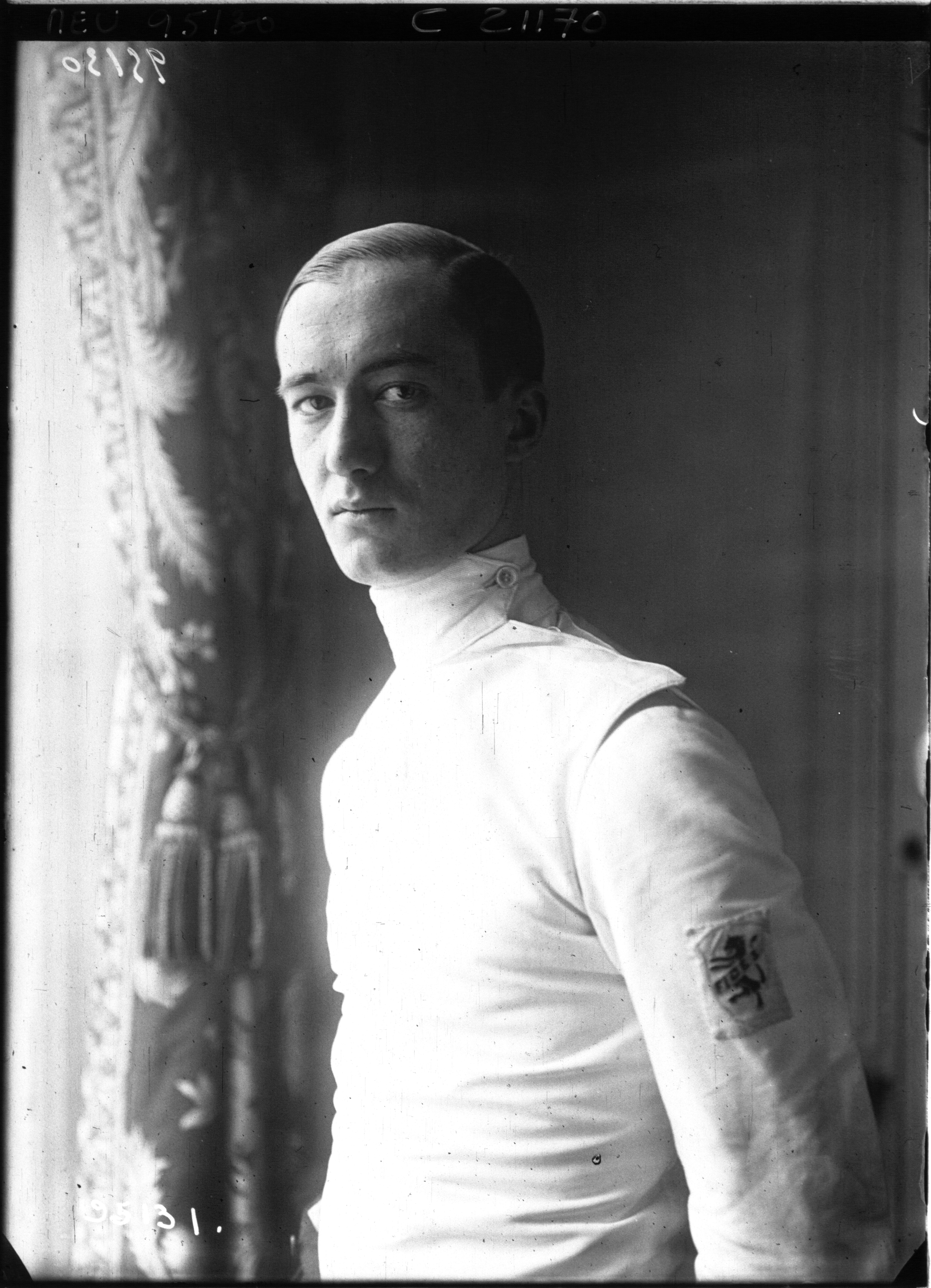 Picture of Aldo Nadi